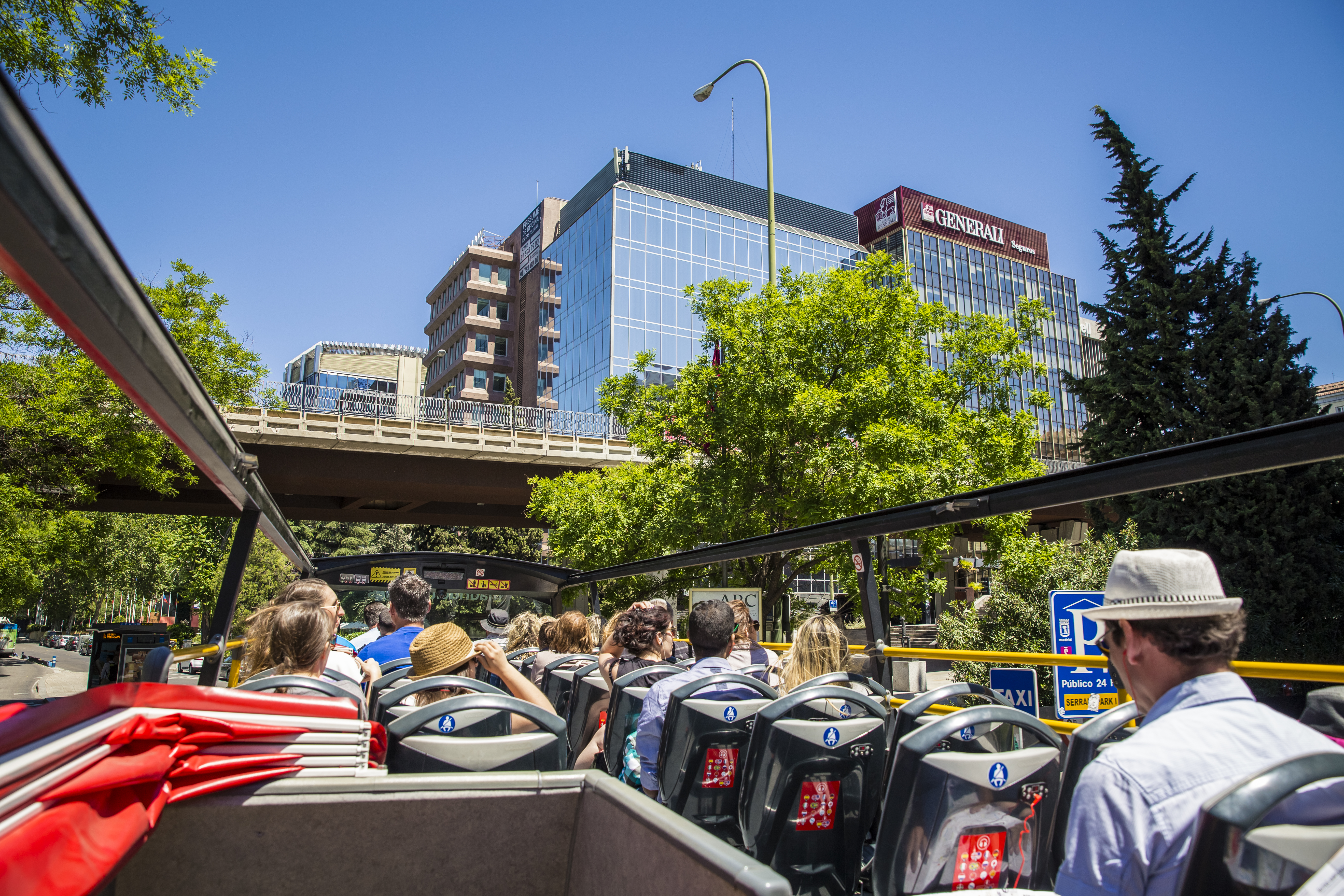 Tour around the City of Madrid Spain